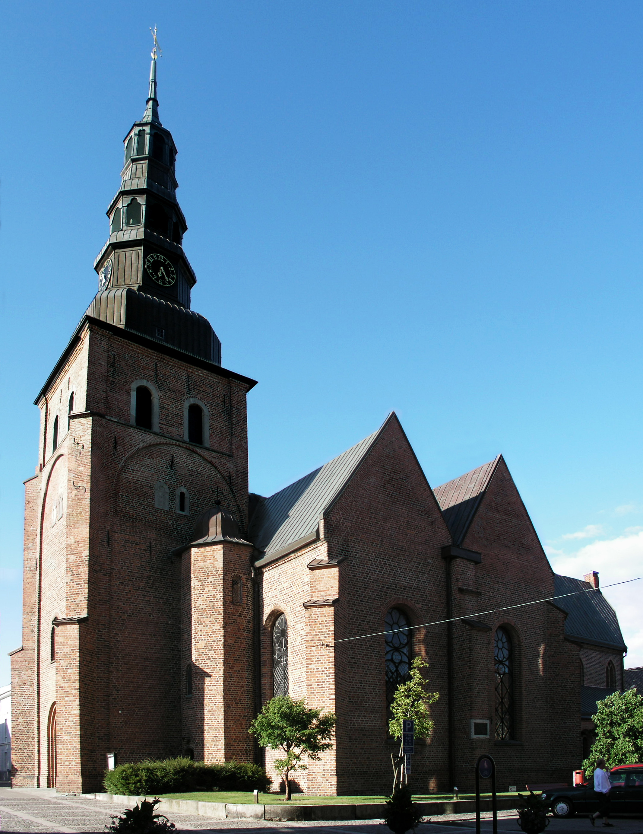 Sankta Maria, Ystad. Composition of two images.